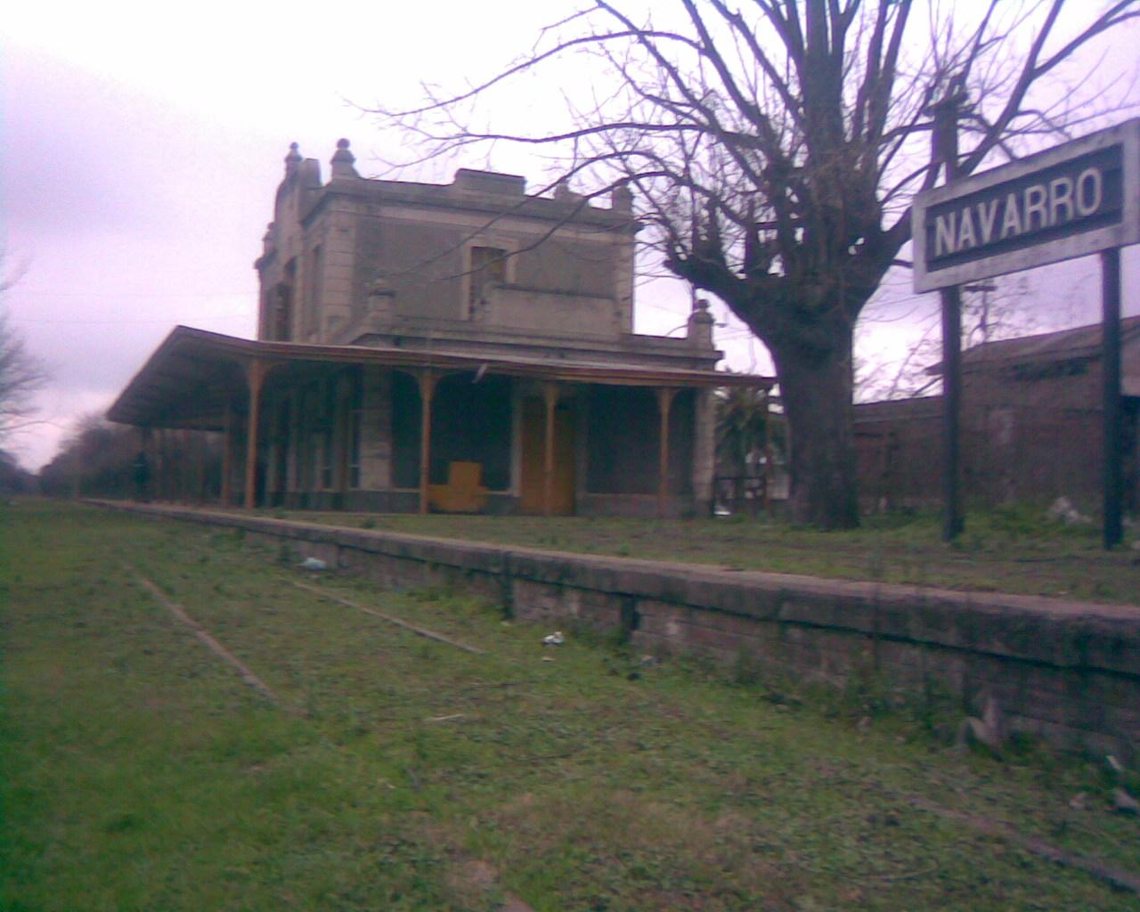 Navarro station. Buenos Aires.